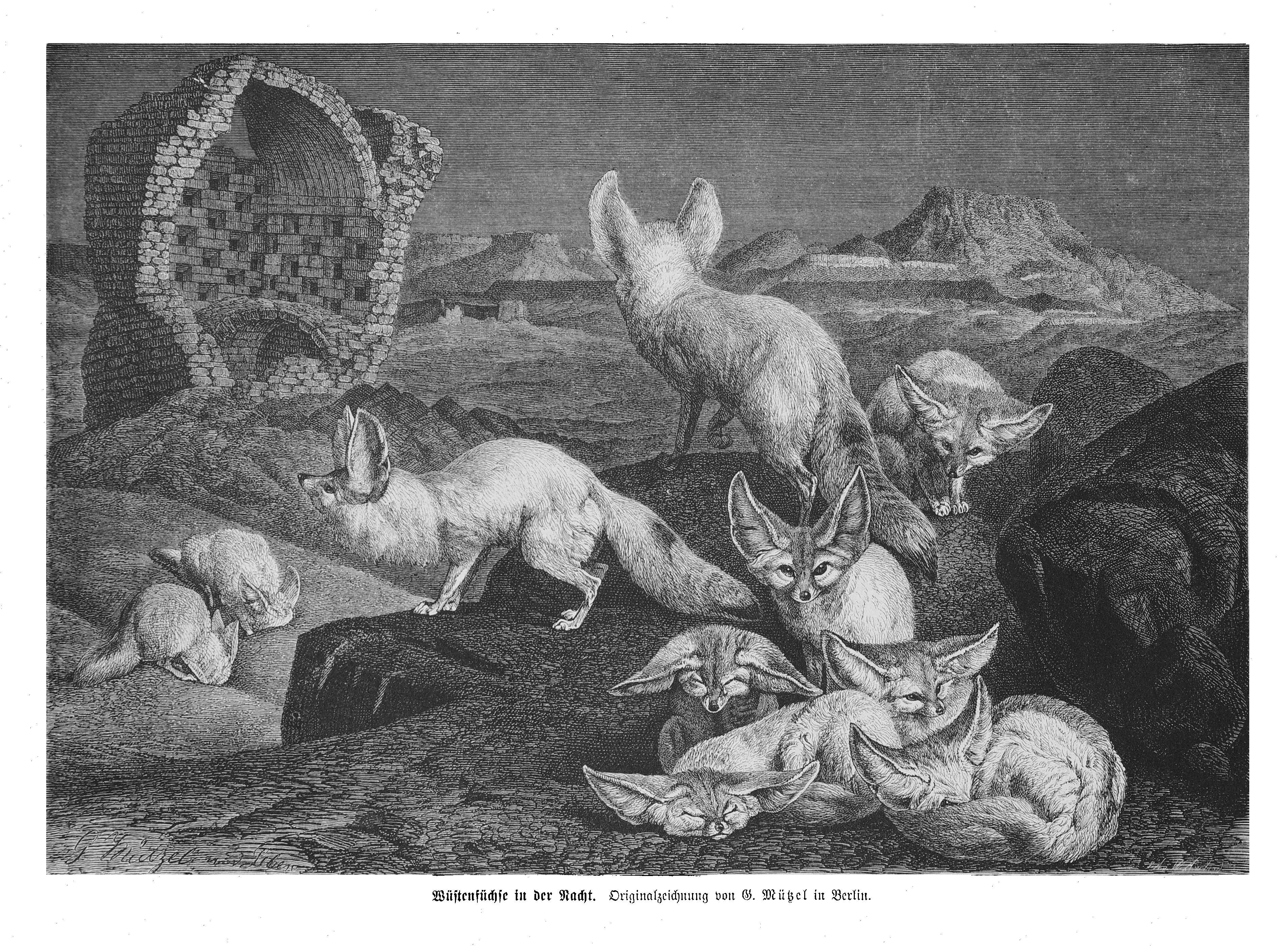 caption: "Wüstenfüchse in der Nacht. Originalzeichnung von G. Mützel in Berlin."